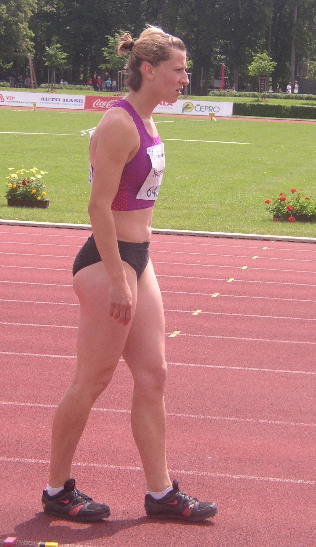 Athlete Lyudmyla Yosypenko of Ukraine prepares for her attempt in long jump during women's heptathlon at 4th edition of the TNT - Fortuna Meeting (IAAF World Combined Events Challenge Meeting, Sletiště Stadium, Kladno, Czech Republic, 16 June 2010, 11:41).